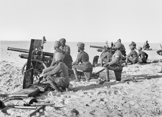 The Hong-Kong-Singapore Mountain Battery of the Imperial Camel Corps, training with their light field guns. Artillery spotters in the top right hand corner are doing the survey work.